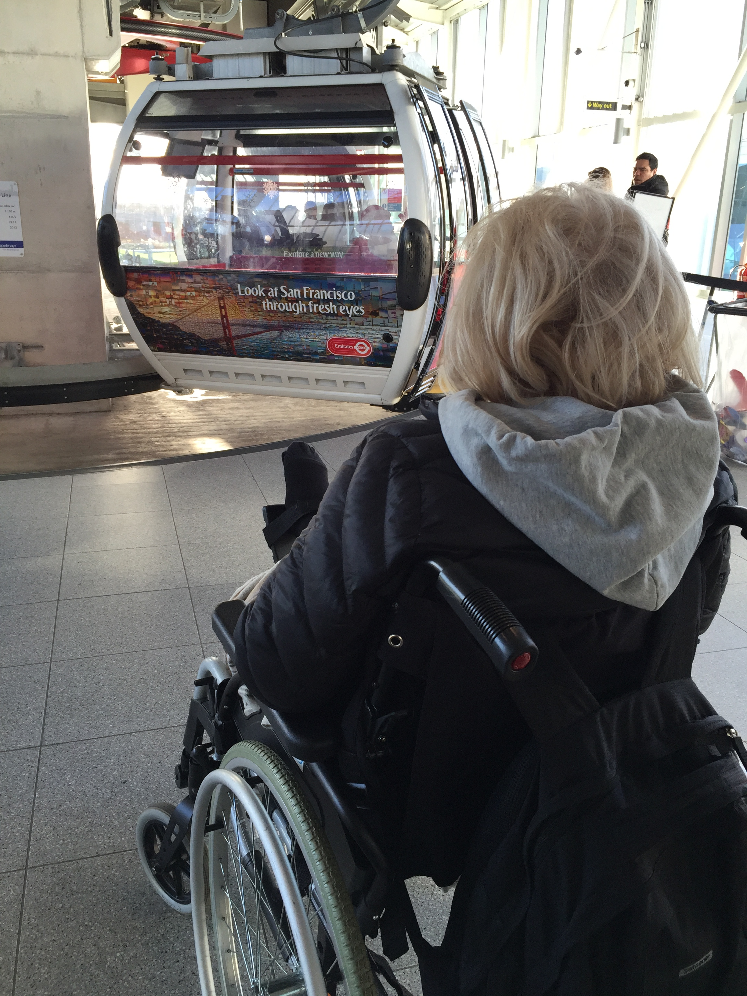 Disabled person boarding London's cable car at Royal Victoria in 2015